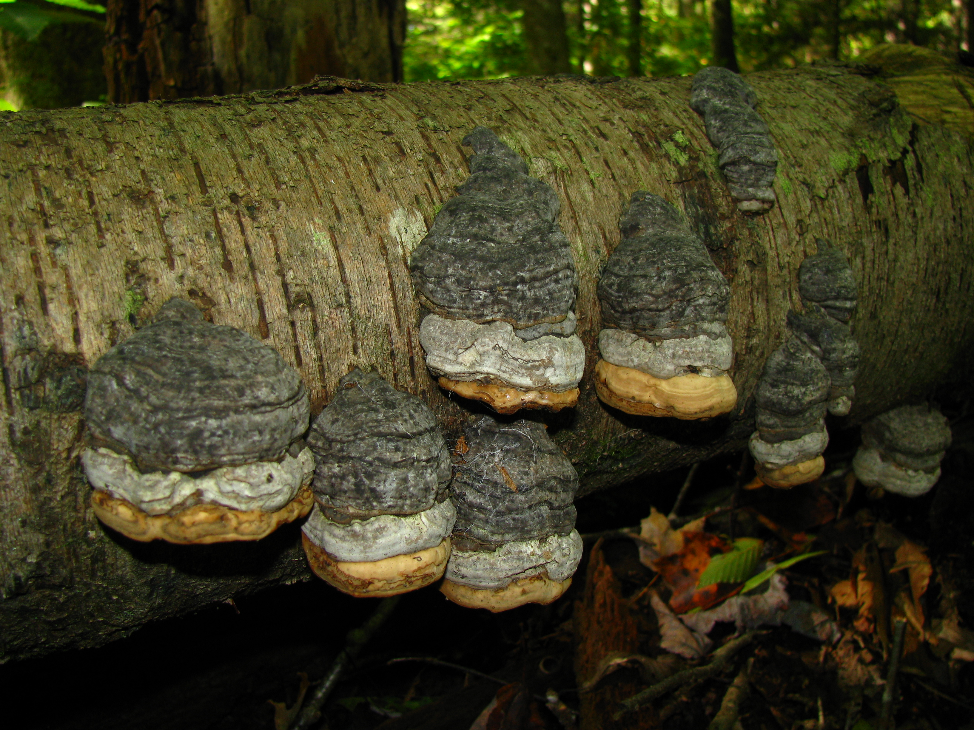 Fomes fomentarius (L.) J.J. Kickx Location: Cranberry Wilderness, Monongahela National Forest, West Virginia, USA For more information about this, see the observation page at Mushroom Observer.